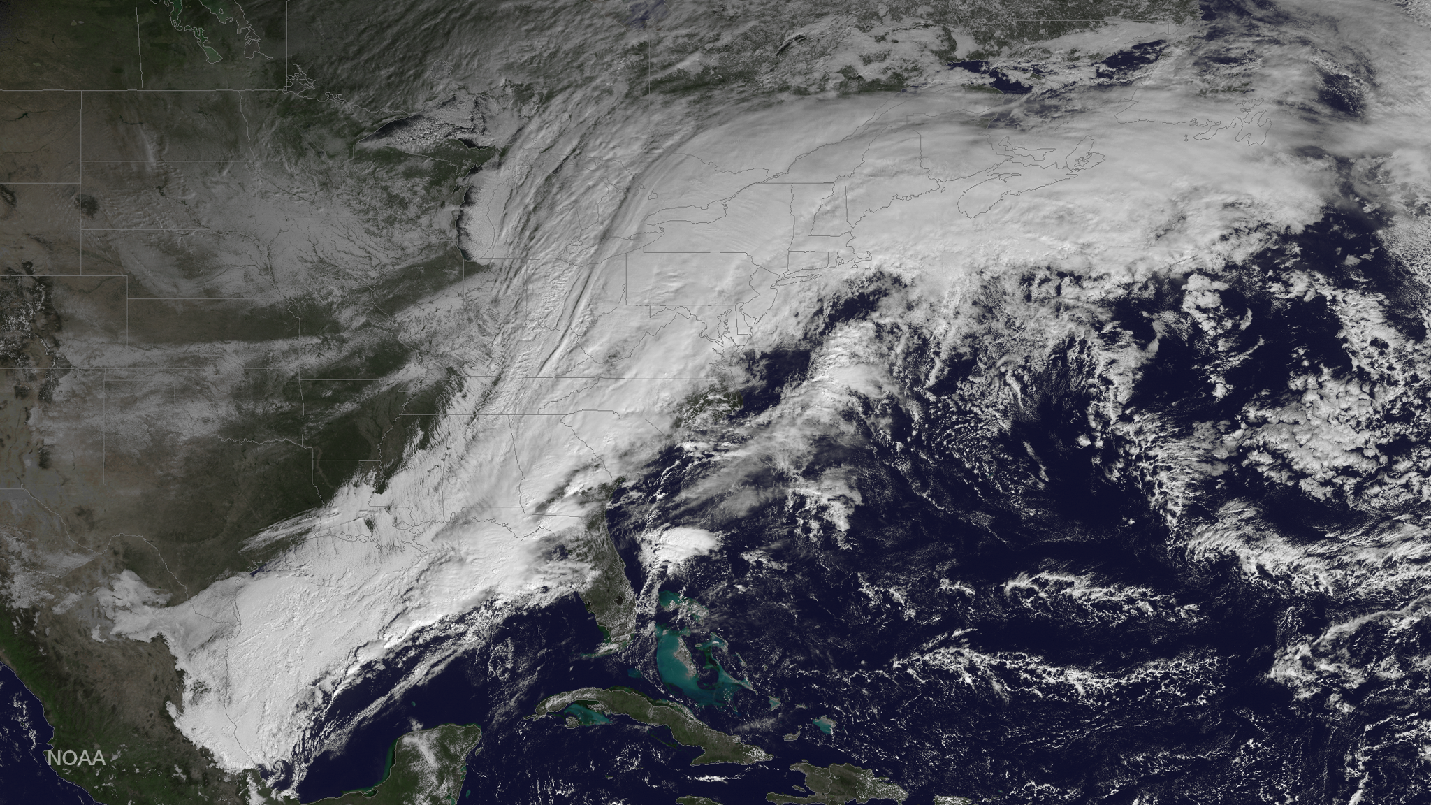 North American winter storm – This image was taken by GOES East at 1445Z on November 17, 2014.